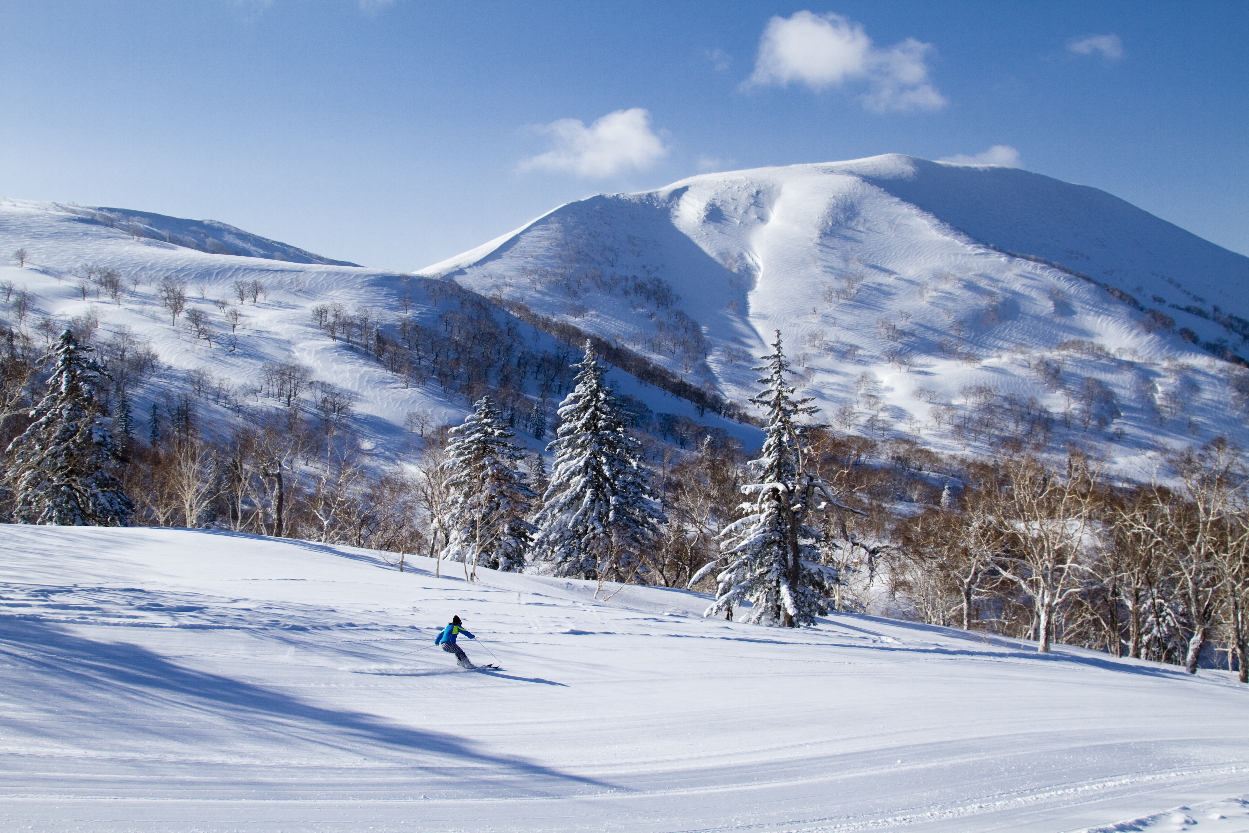 Kiroro Snow World